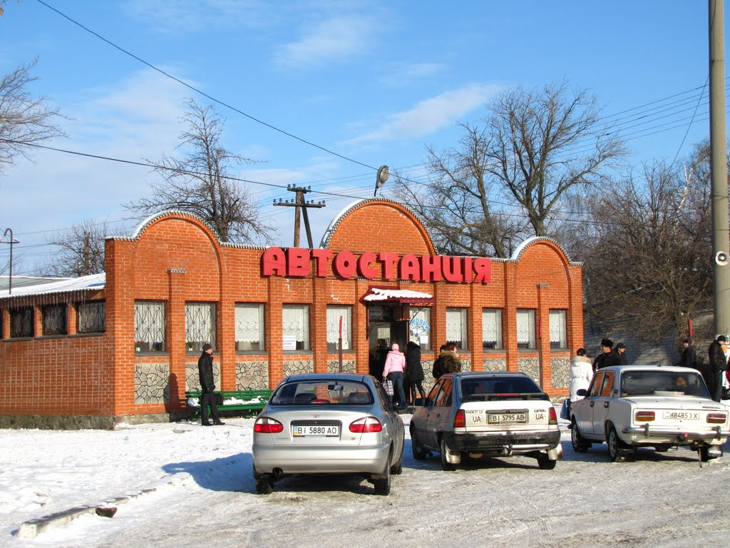 Автостанція Семенівка